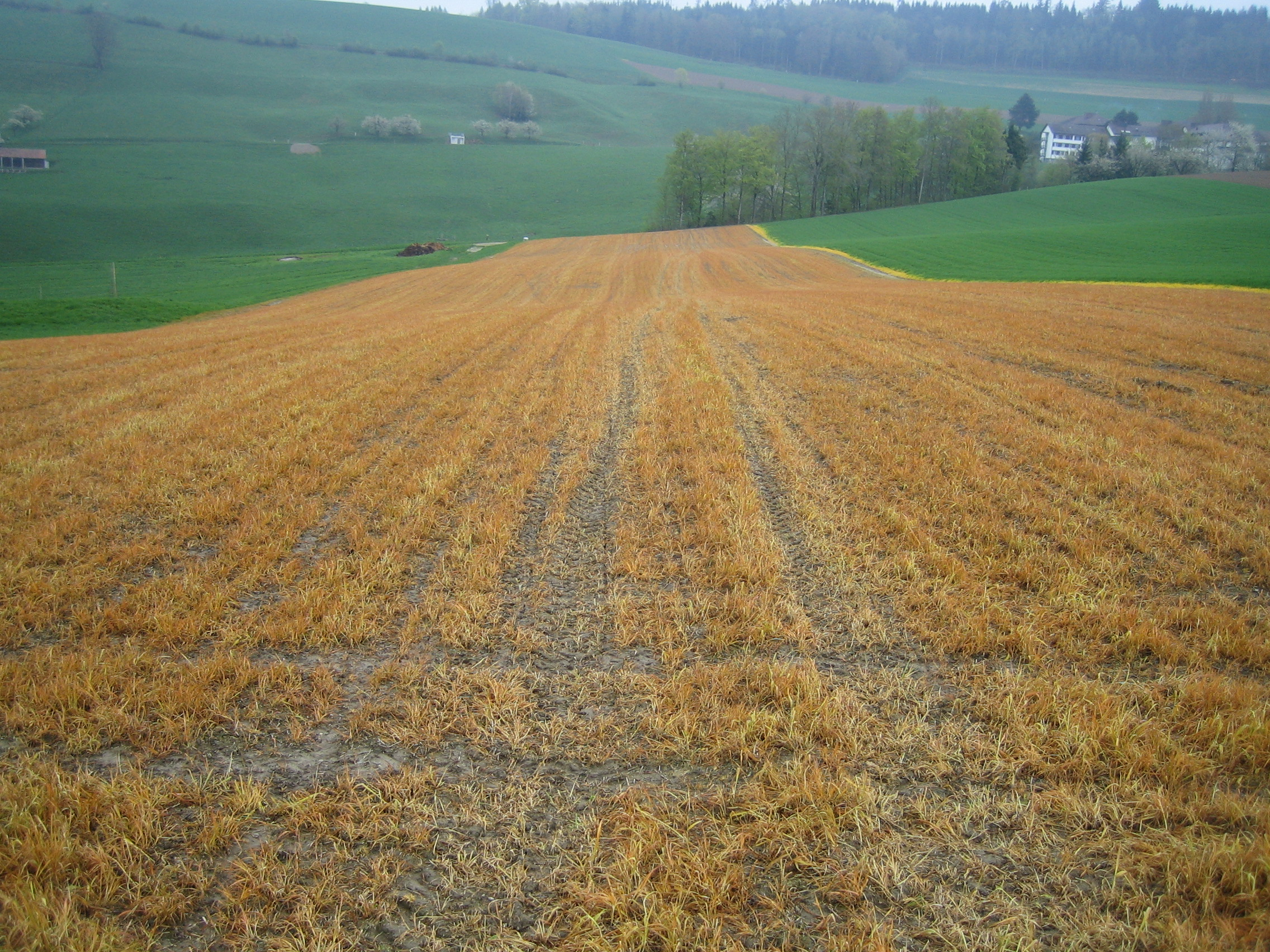 No-till farming to prevent soil erosion, canton of Bern, Switzerland